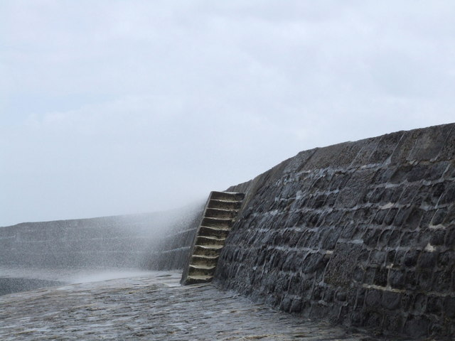 Spray breaking over The Cobb at Lyme Regis